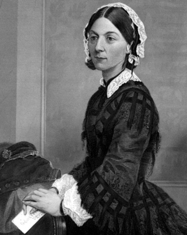 Portrait of Florence Nightingale.